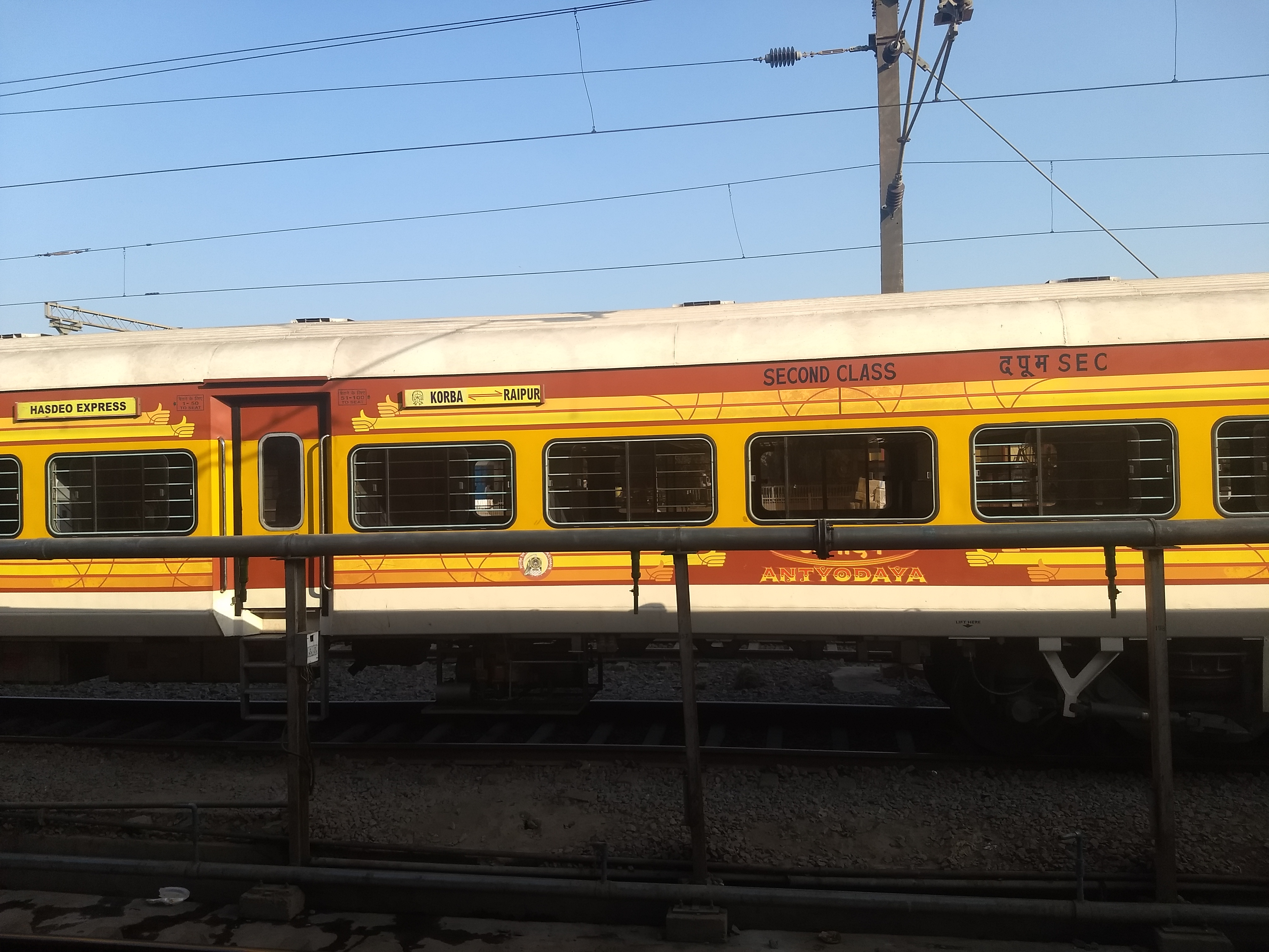 HASDEO EXPRESS (Korba to Raipur) waiting for journey at Raipur Station.